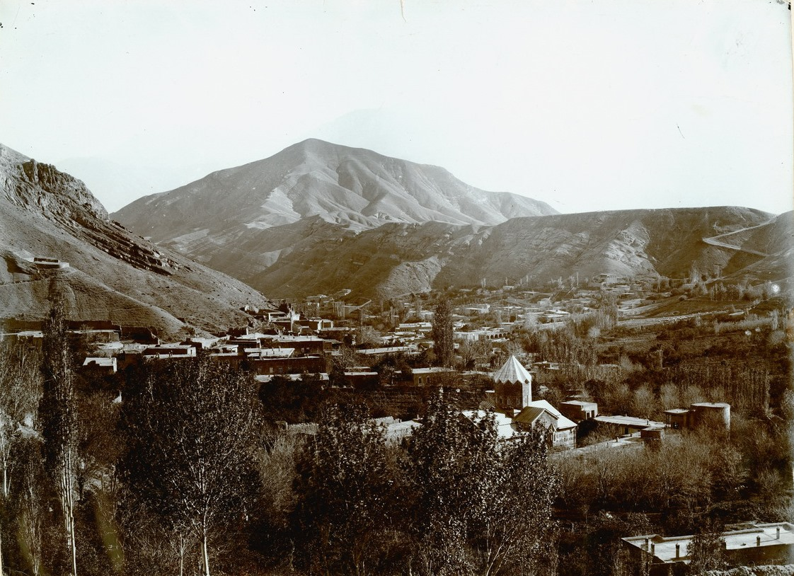 Verin Agulis, 1900s